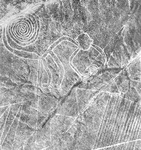 Aerial archeological photograph of the "Nazca monkey" in Peru